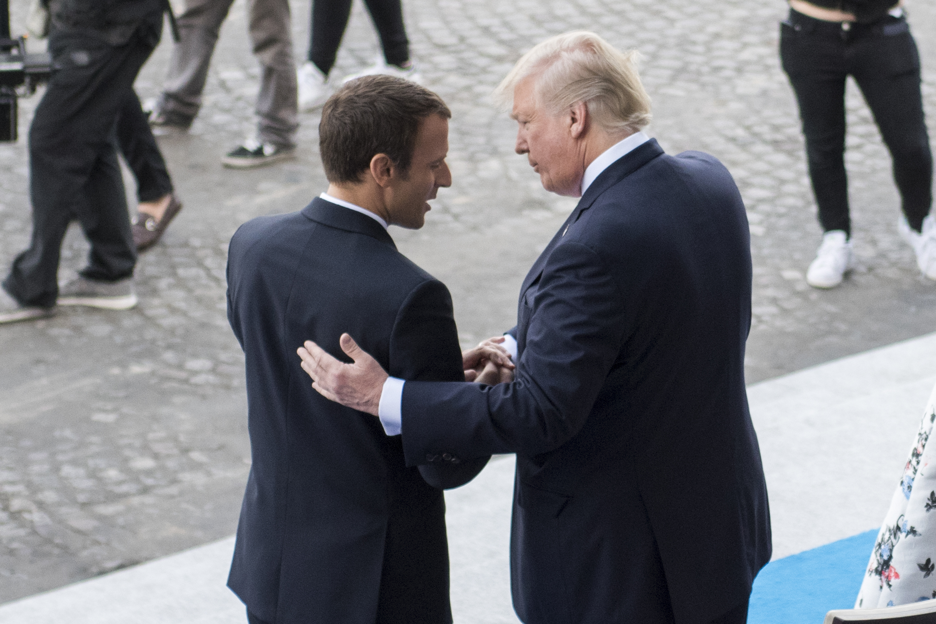 French President Emmanuel Macron welcomes President Donald J. Trump to the reviewing stand for the Bastille Day military parade in Paris, July 14, 2017. Macron and Trump recognized the continuing strength of the U.S.-France alliance from World War I to today. DoD photo by Navy Petty Officer 2nd Class Dominique Pineiro